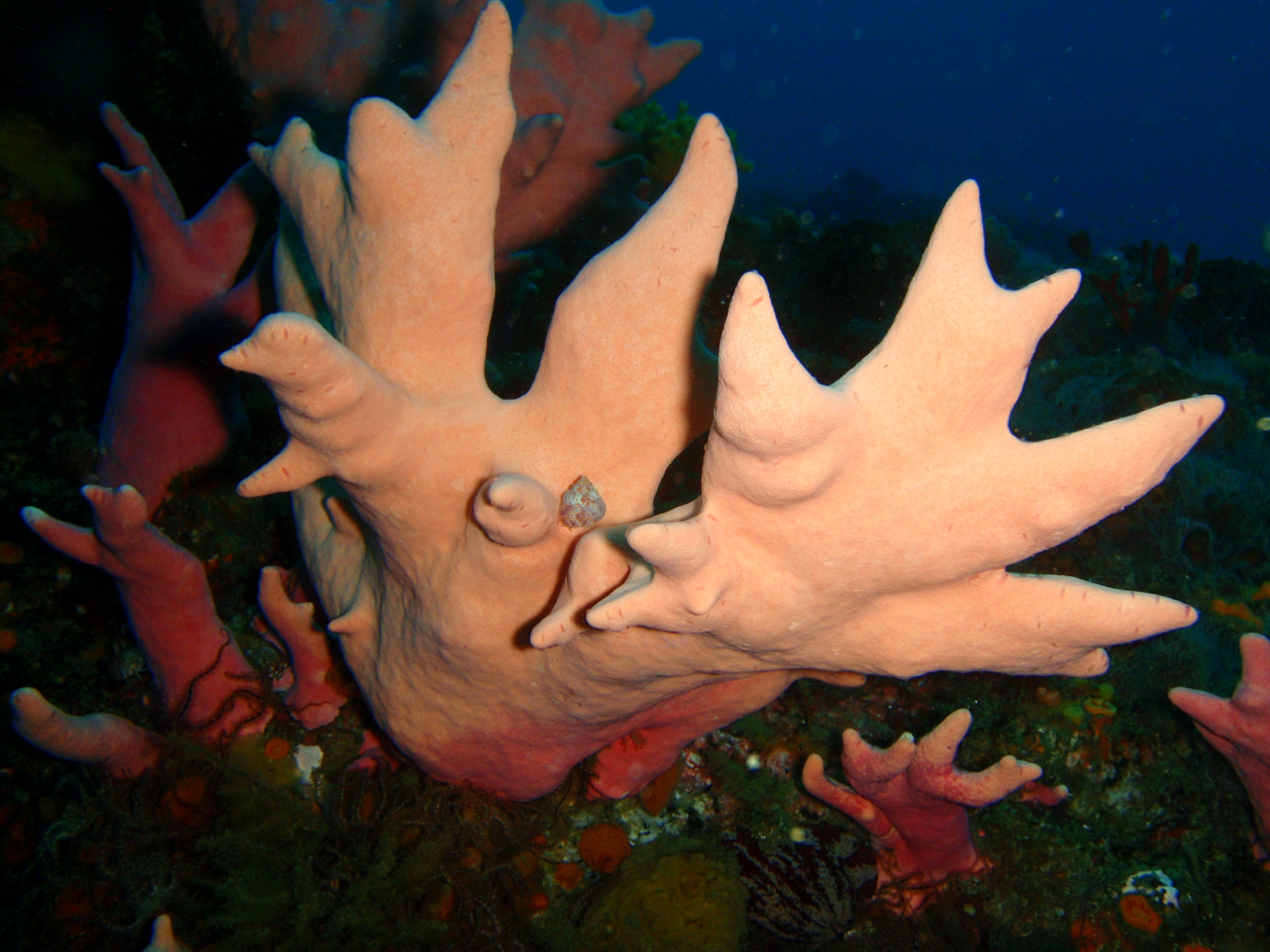 Noble coral Stylaster nobilis at Tafelberg Deep reef off the Cape Peninsulaat Tafelberg Deep reef off the Cape Peninsula